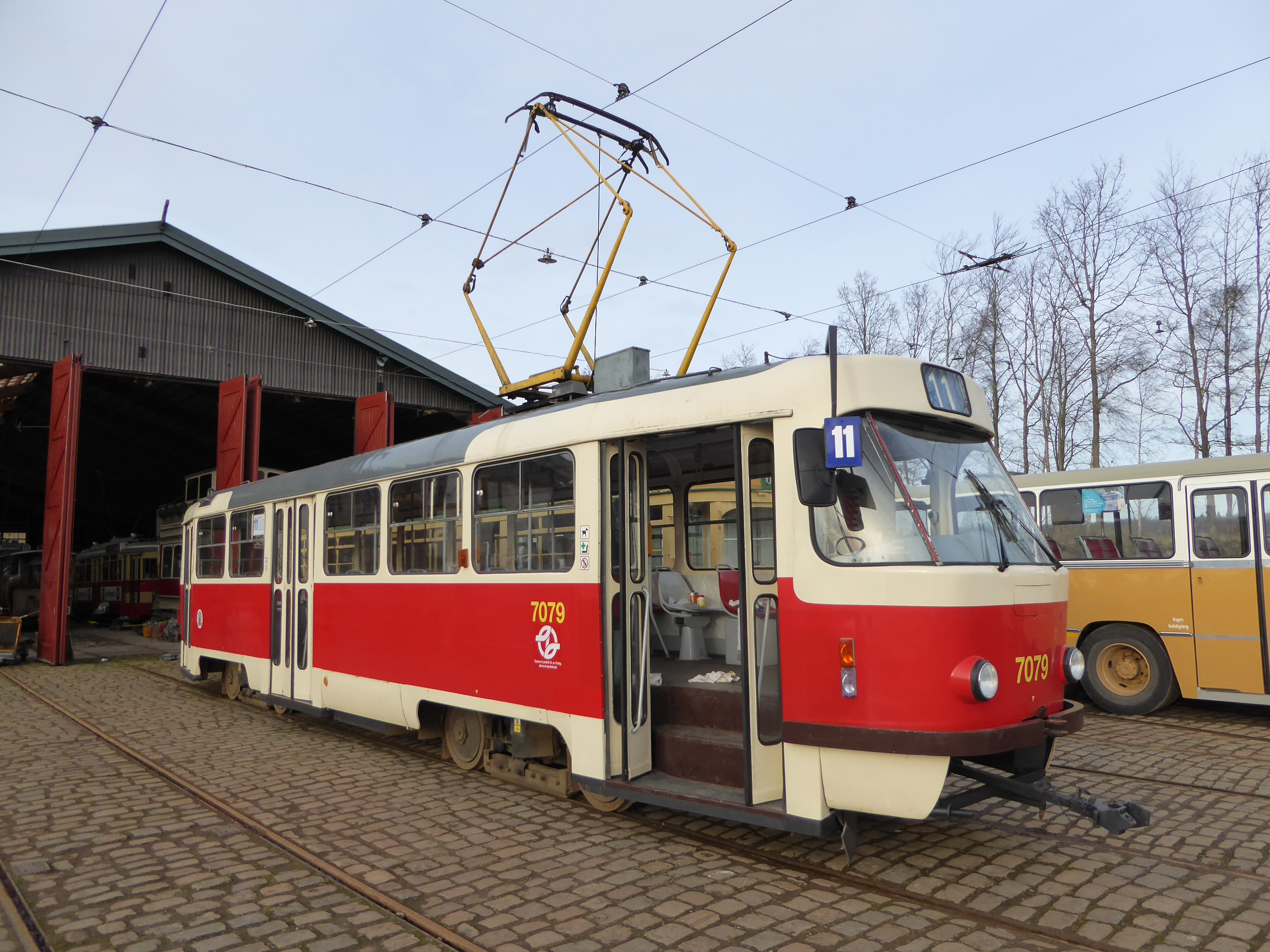 The tramway museum Sporvejsmuseet Skjoldenæsholm in Denmark open for Christmas. Old tram from Prague, DPP 7079.